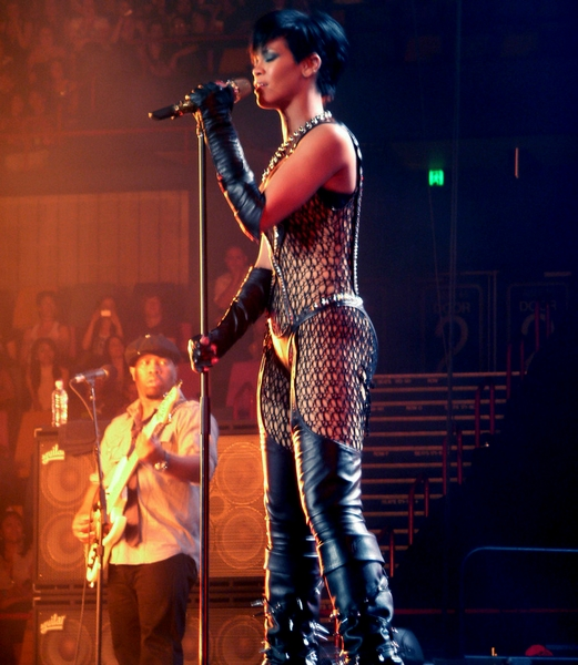 Rihanna and Chris Brown concert, Brisbane Entertainment Centre